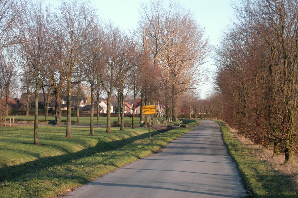 Millen-Bruch, a small village in North Rhine-Westphalia